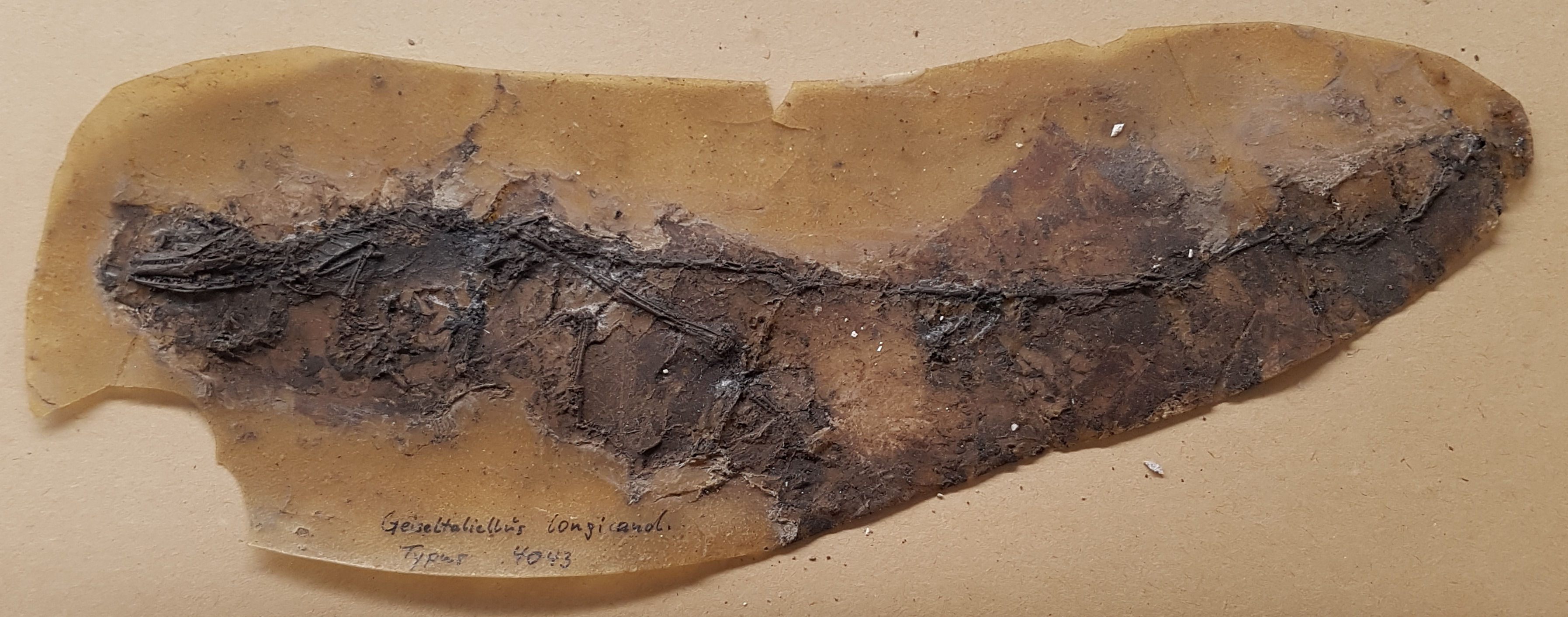 skeleton of Geiseltaliellus from the Geiseltal, Germany, Middle Eocene; took the picture in the Geiseltalmuseum, Halle (Saxony-Anhalt)